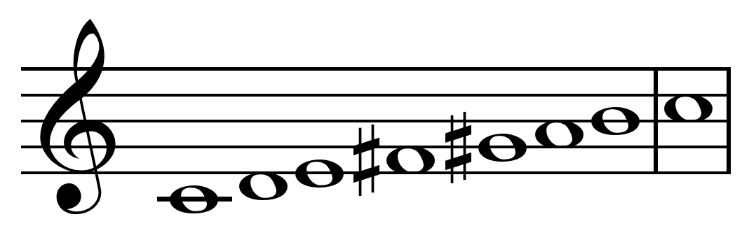 Lydian augmented scale on C.